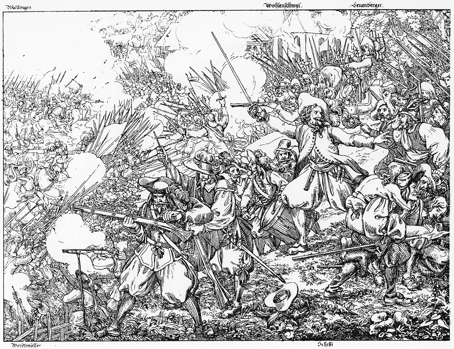 Heroizing depiction of the battle at Wohlenschwil, the decisive battle between peasant and city troops in the Swiss peasant war of 1653. Engraving by Martin Disteli (1802-1844), lithography published in his "pictorial calendar" in 1839/40.